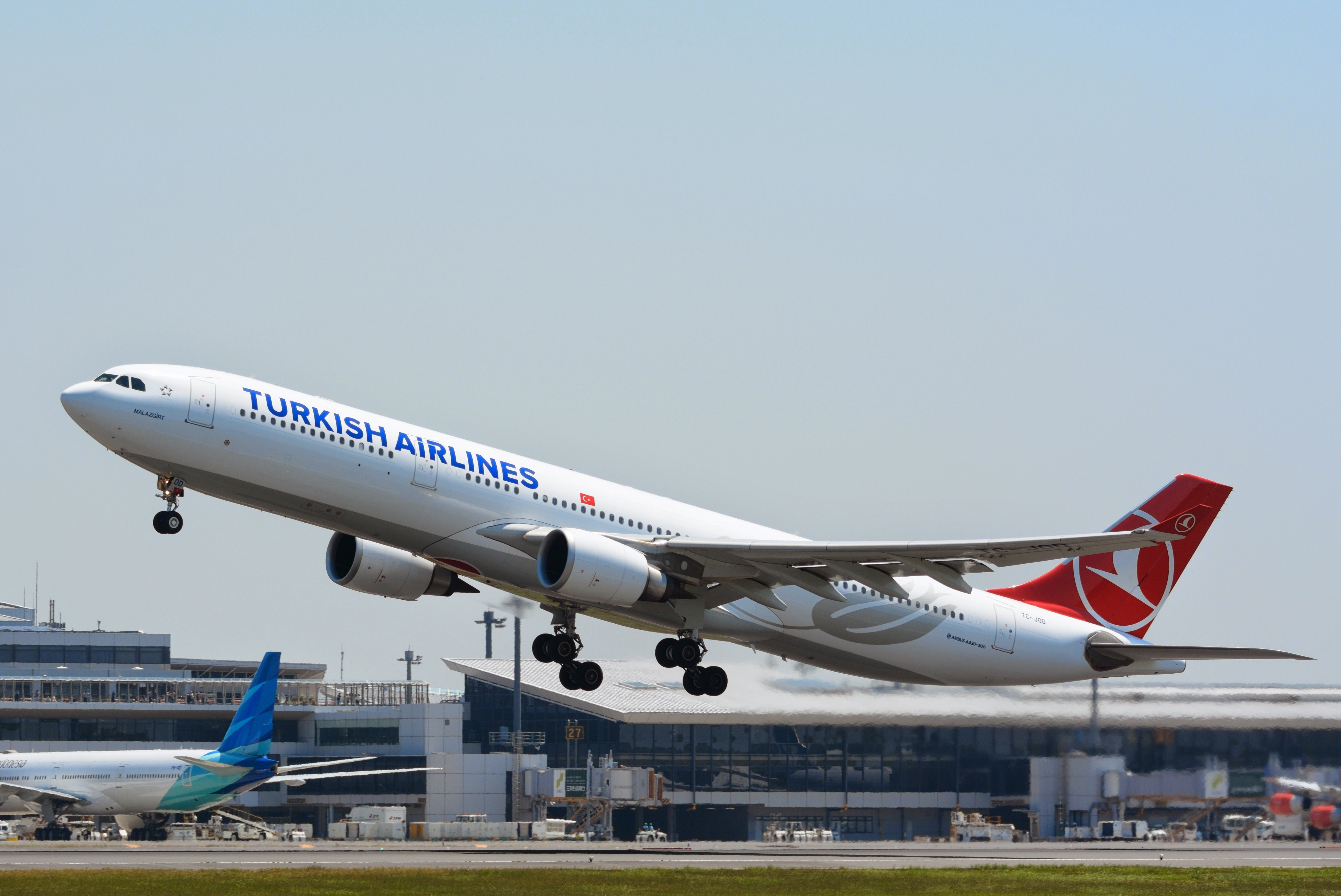 Turkish Airlines, Airbus A330-300 TC-JOD NRT